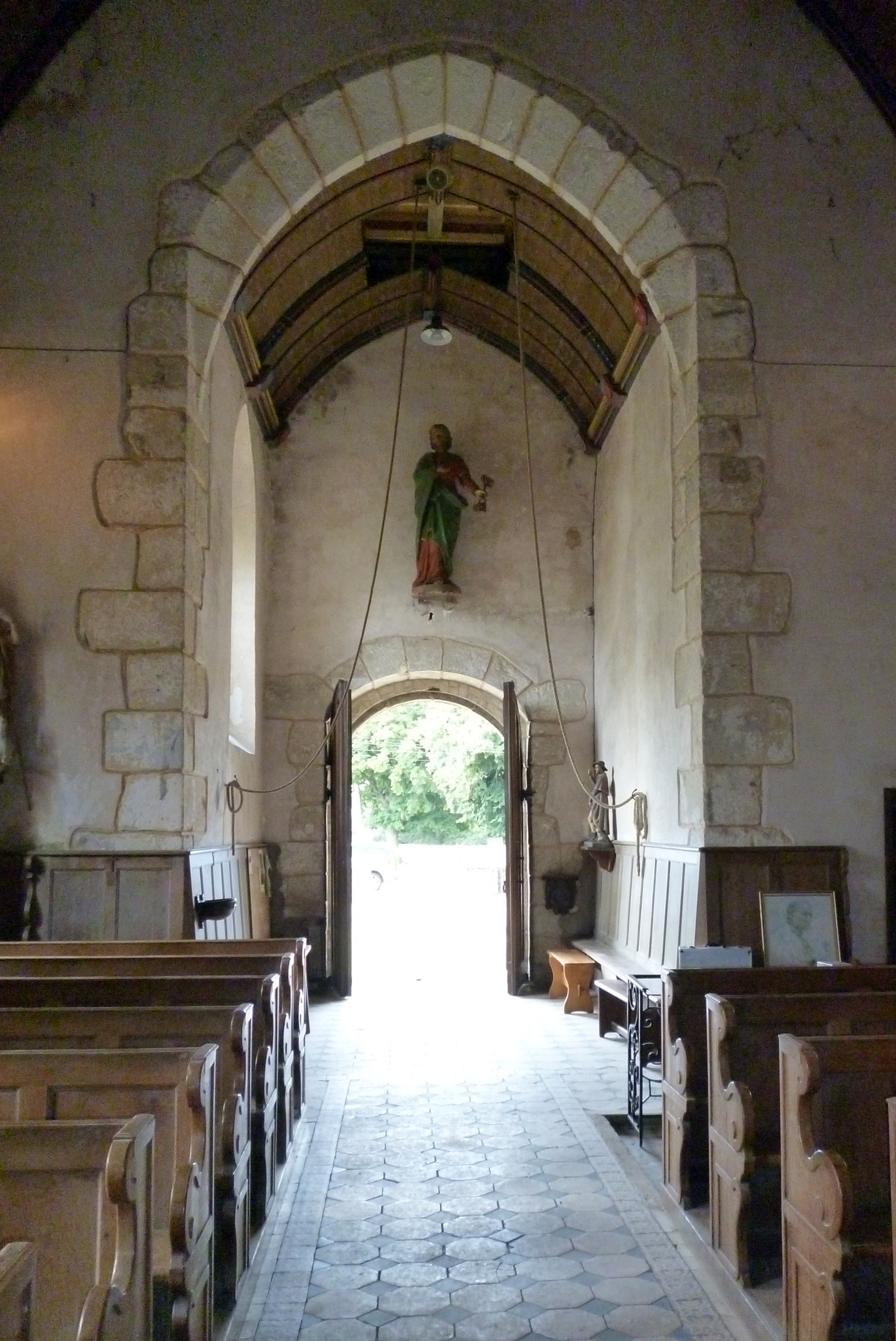 Bell ropes in the church Notre-Dame de Chamblac (Eure, France).